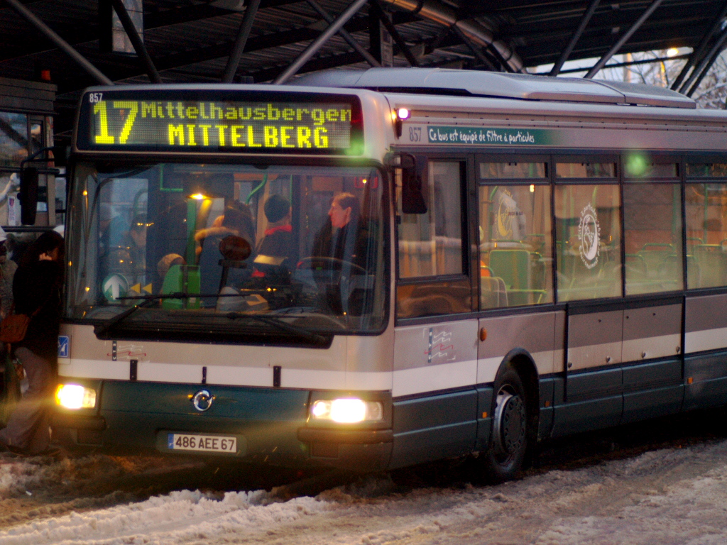 A bus in Strasbourg (France)